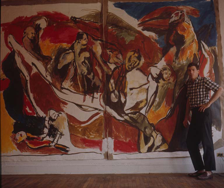 Ship of Fools